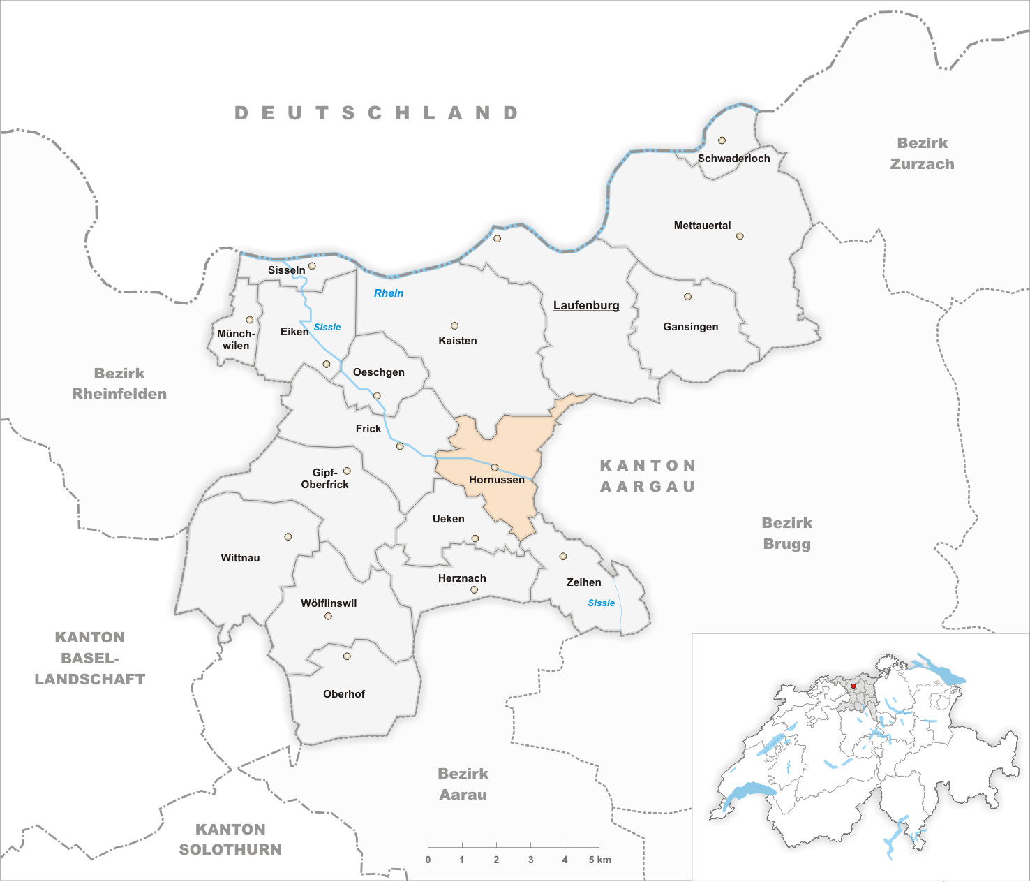 Municipality Hornussen